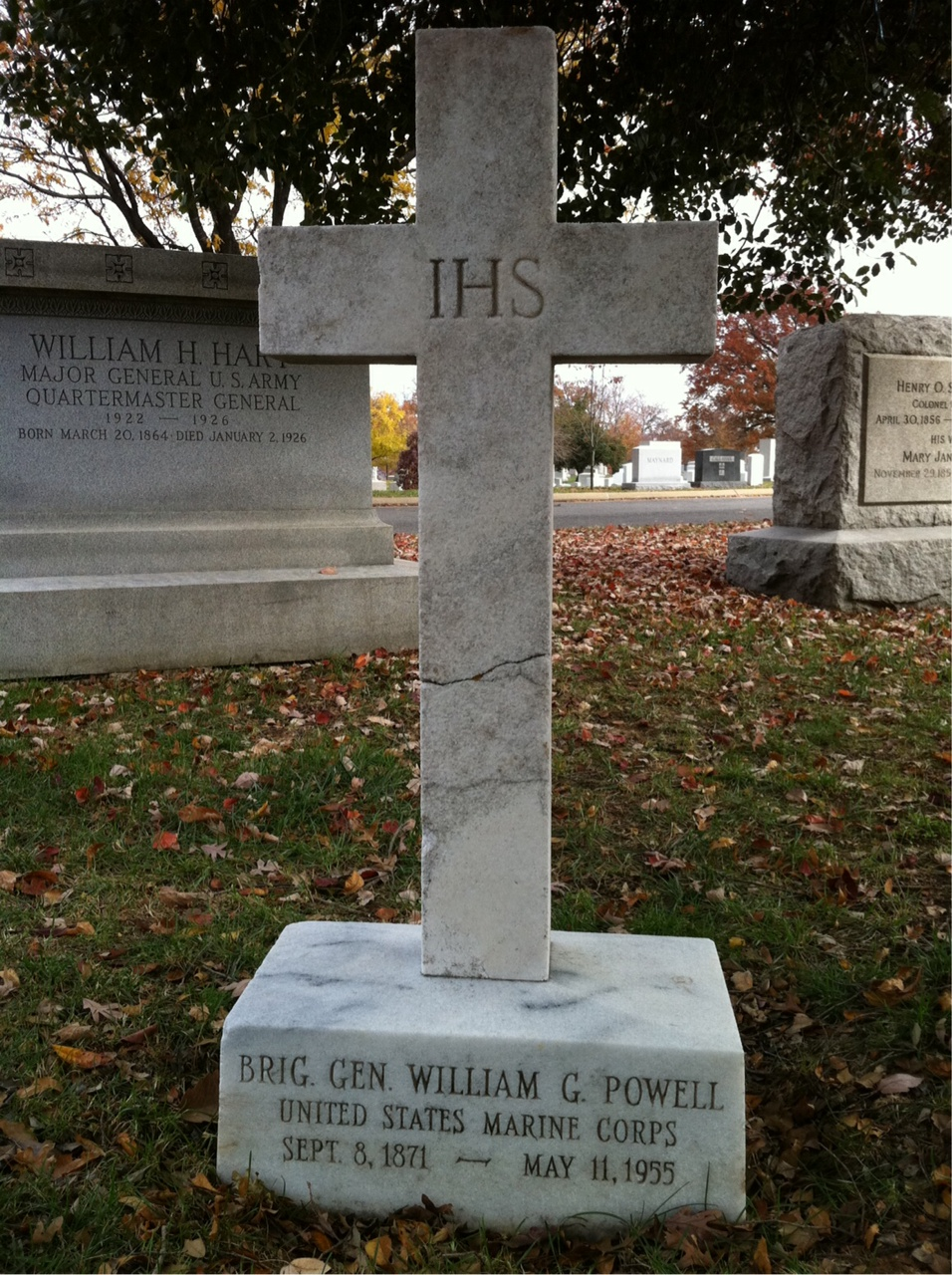 Grave of William G. Powell at Arlington National Cemetery